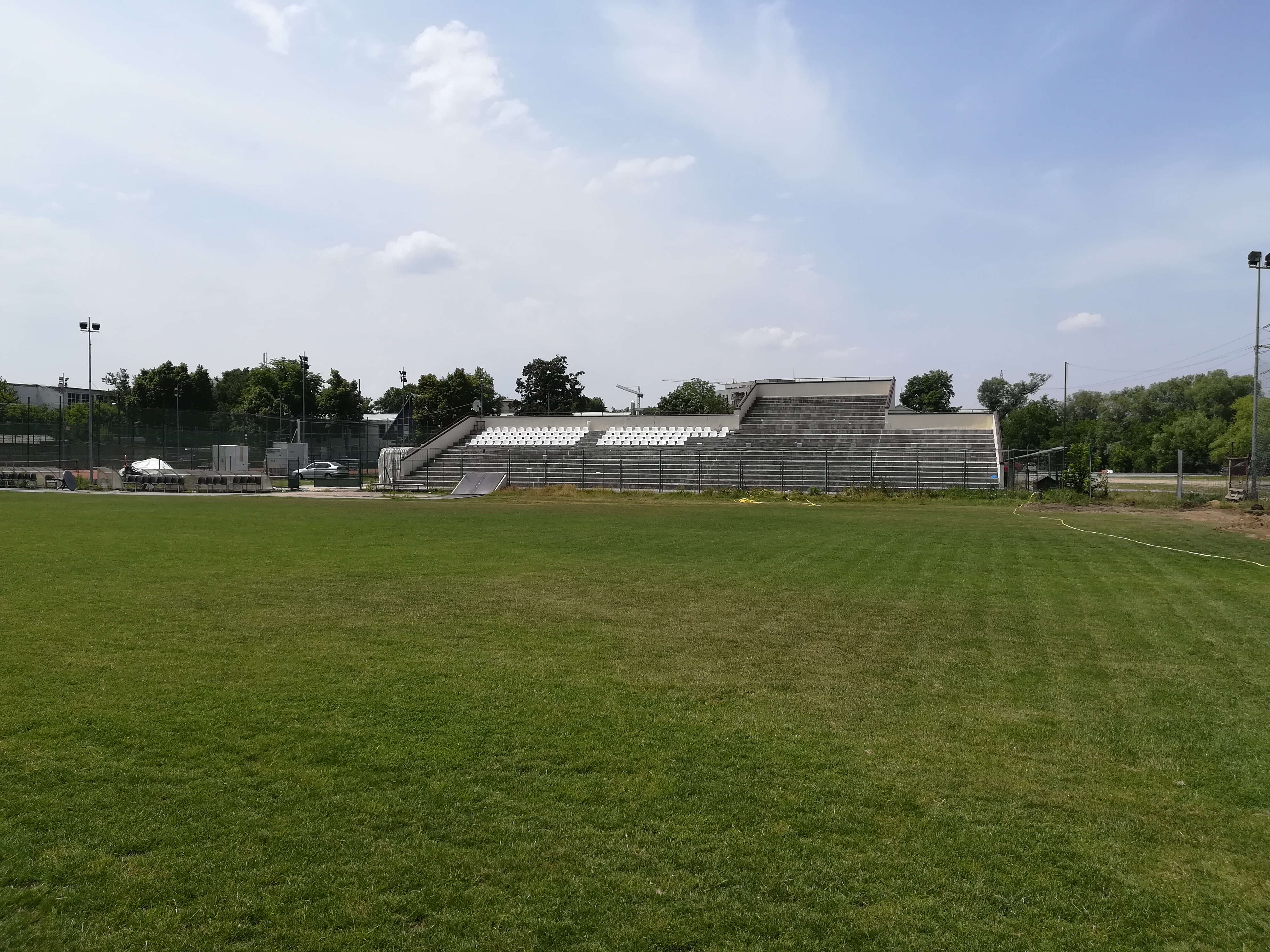 Stadionul Clujana, main stand, interior view, in 2018.